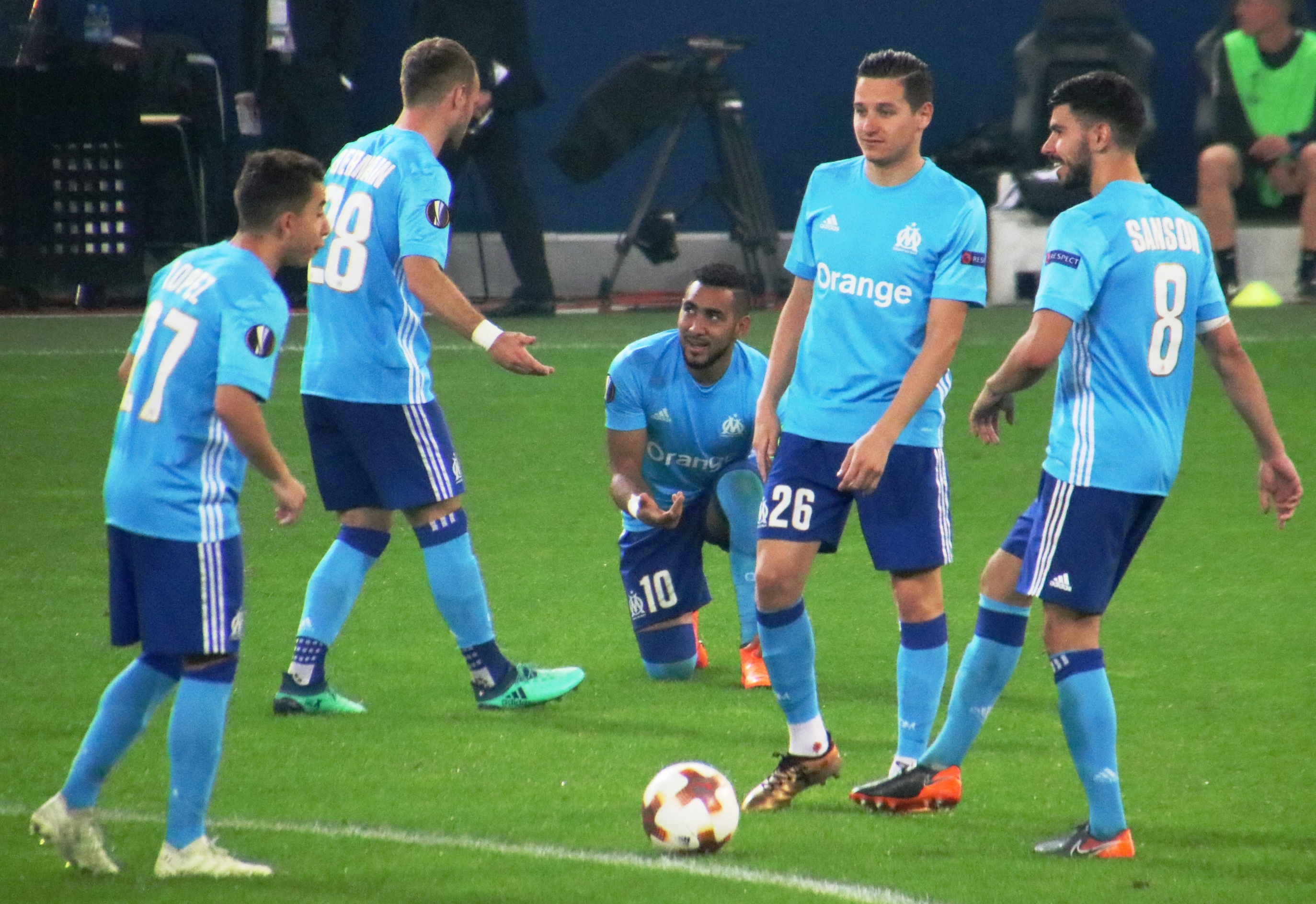 UEFA Euroleague semifinal 2nd leg